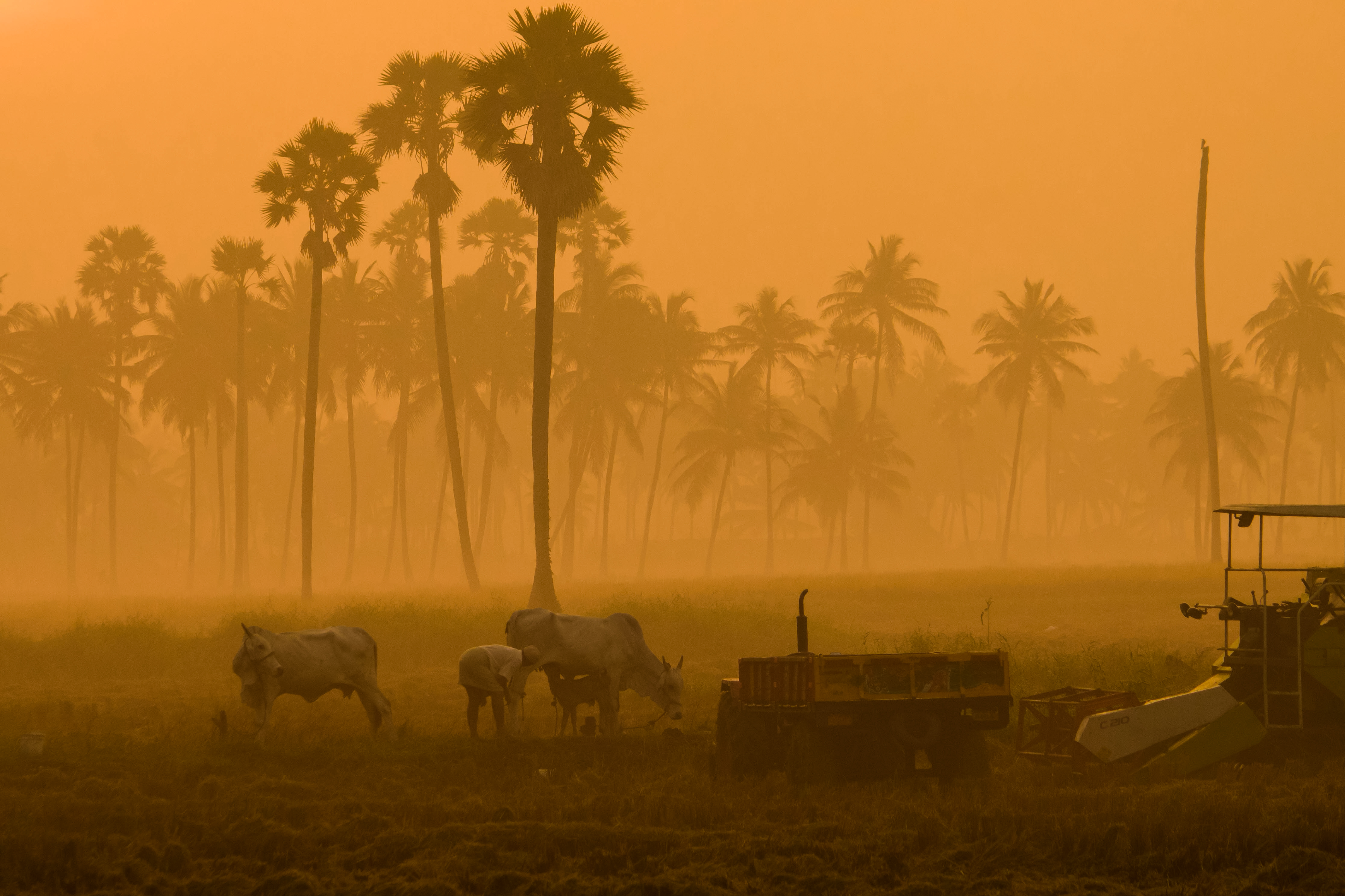 Fields of Kondepudi village during sunrise